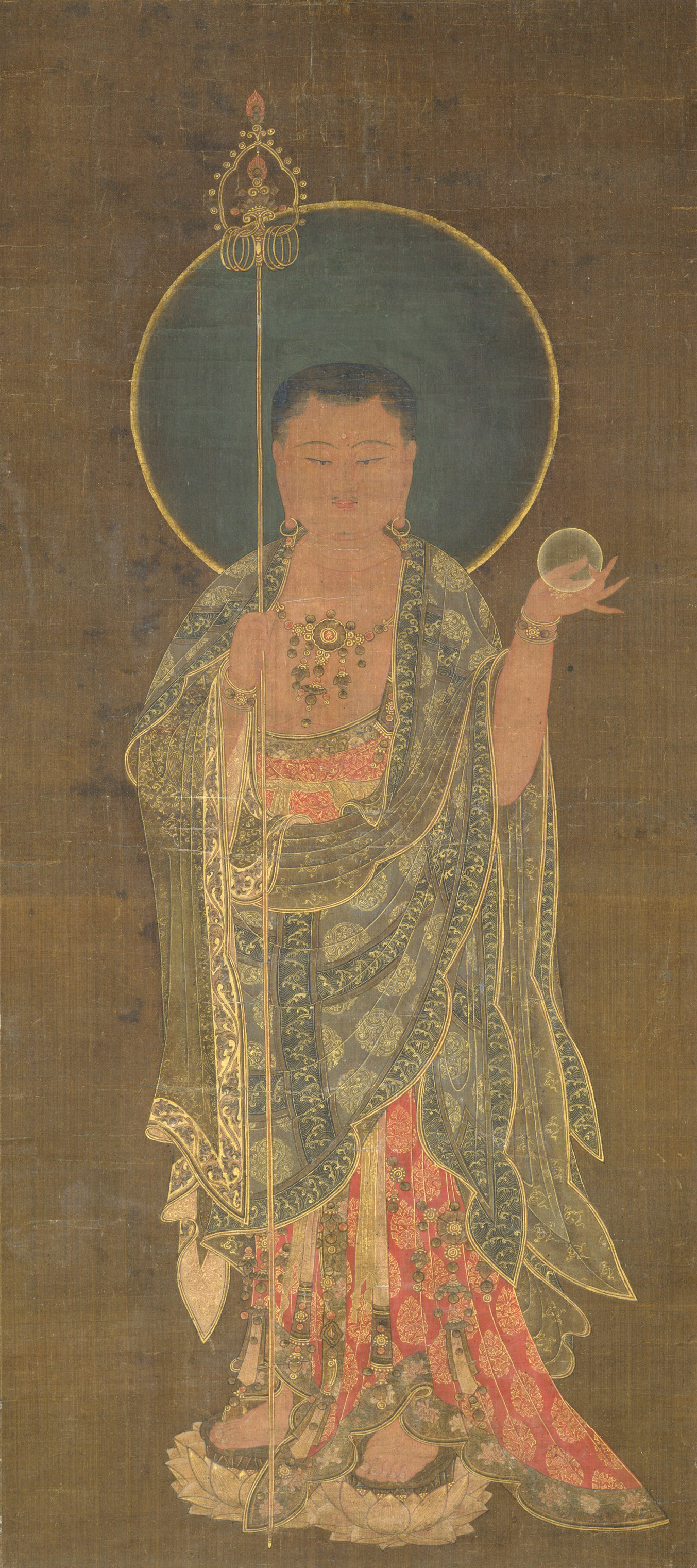 Ksitigarbha (Metropolitan Museum of Art)